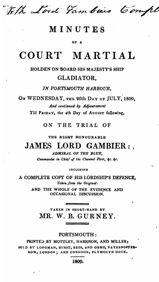 Cover of the minutes of Lord Gambier's court-martial, 1809 From